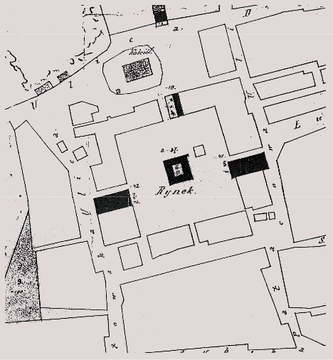 Plan of the town of Żelechów, Poland made in 1868.